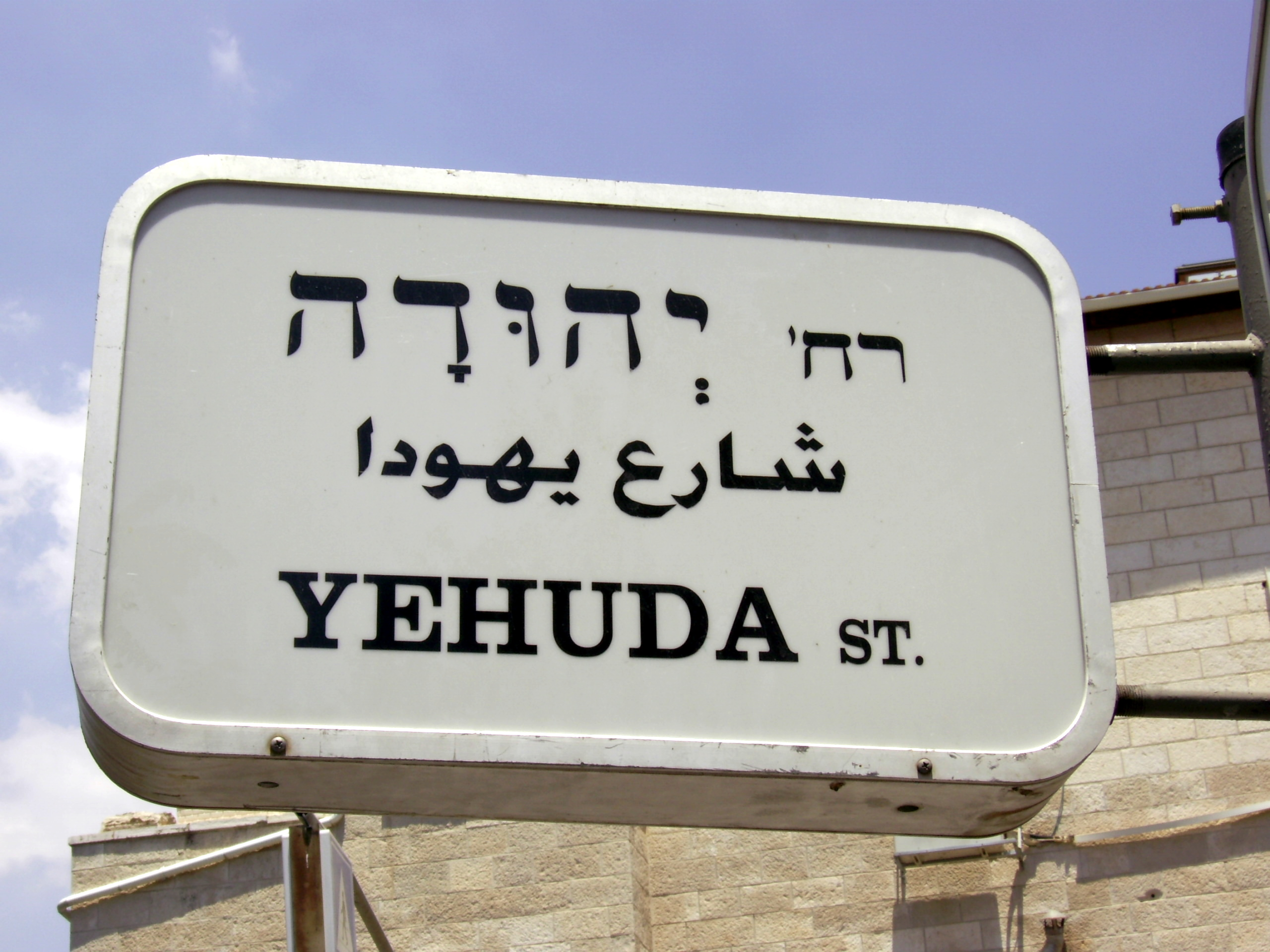 Jerusalem, Bak'ah neighborhood, Yehuda street sign